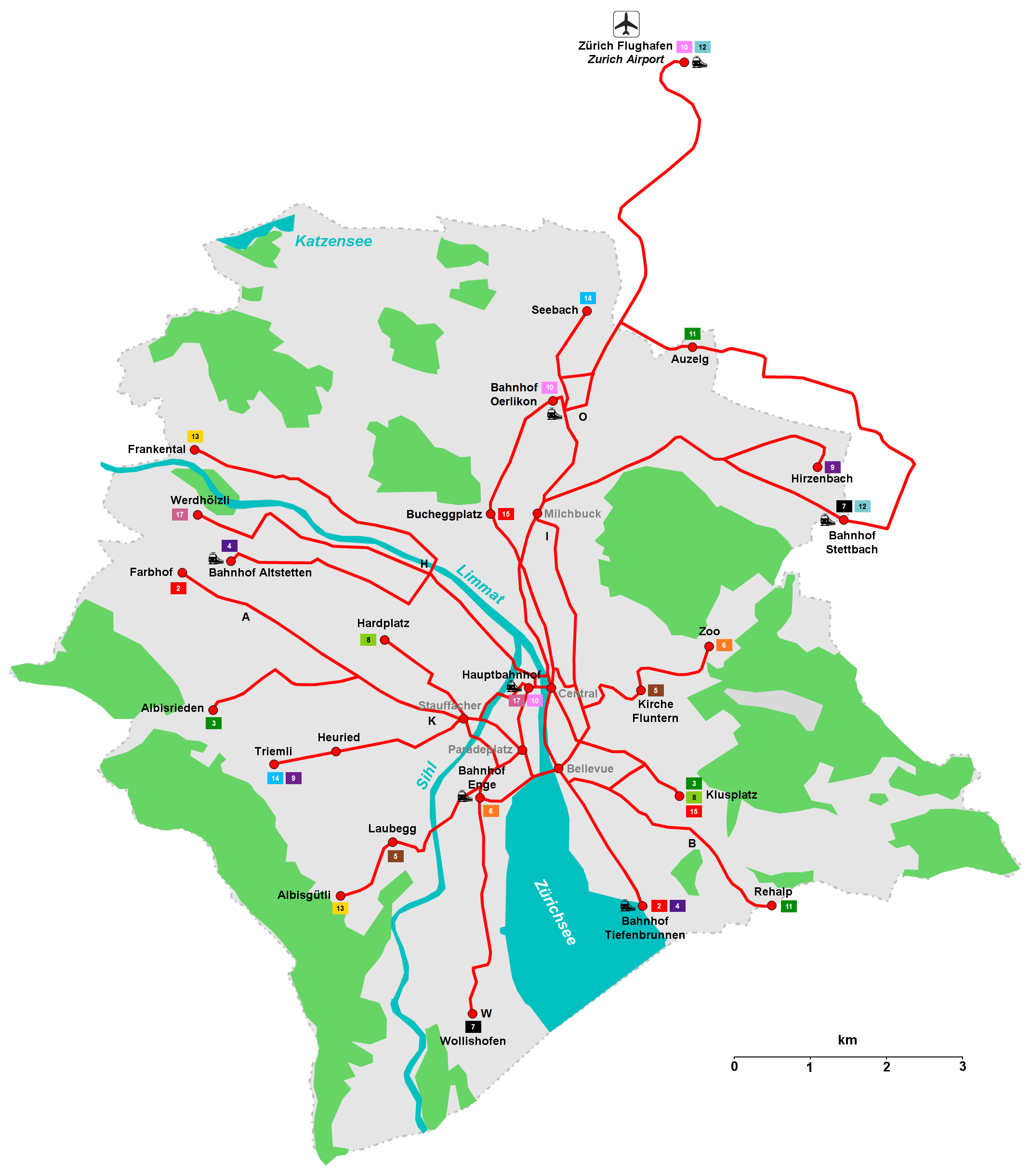 The Tramway Network of Zurich Linien / Lignes / Linee / Lines (2013): 02 Bahnhof Tiefenbrunnen – Farbhof 03 Albisrieden – Klusplatz 04 Bahnhof Tiefenbrunnen – Bahnhof Altstetten 05 Laubegg – Bahnhof Enge – Kirche Fluntern – Zoo 06 Bahnhof Enge – Hauptbahnhof – Zoo 07 Wollishofen – Bahnhof Stettbach 08 Klusplatz – Bellevue – Hardplatz 09 Hirzenbach – Heuried – Triemli 10 Hauptbahnhof – Bahnhof Oerlikon – Flughafen 11 Rehalp – Auzelg 12 Bahnhof Stettbach – Flughafen 13 Albisgütli – Frankental 14 Triemli – Seebach 15 Bucheggplatz – Klusplatz 17 Hauptbahnhof – Werdhölzli Depots / Dépôts / Depositi / Depots: A= Altstetten (Zentralwerkstätte)B= Burgwies (Tram Museum)H= HardI= IrchelK= KalkbreiteO= OerlikonW= Wollishofen